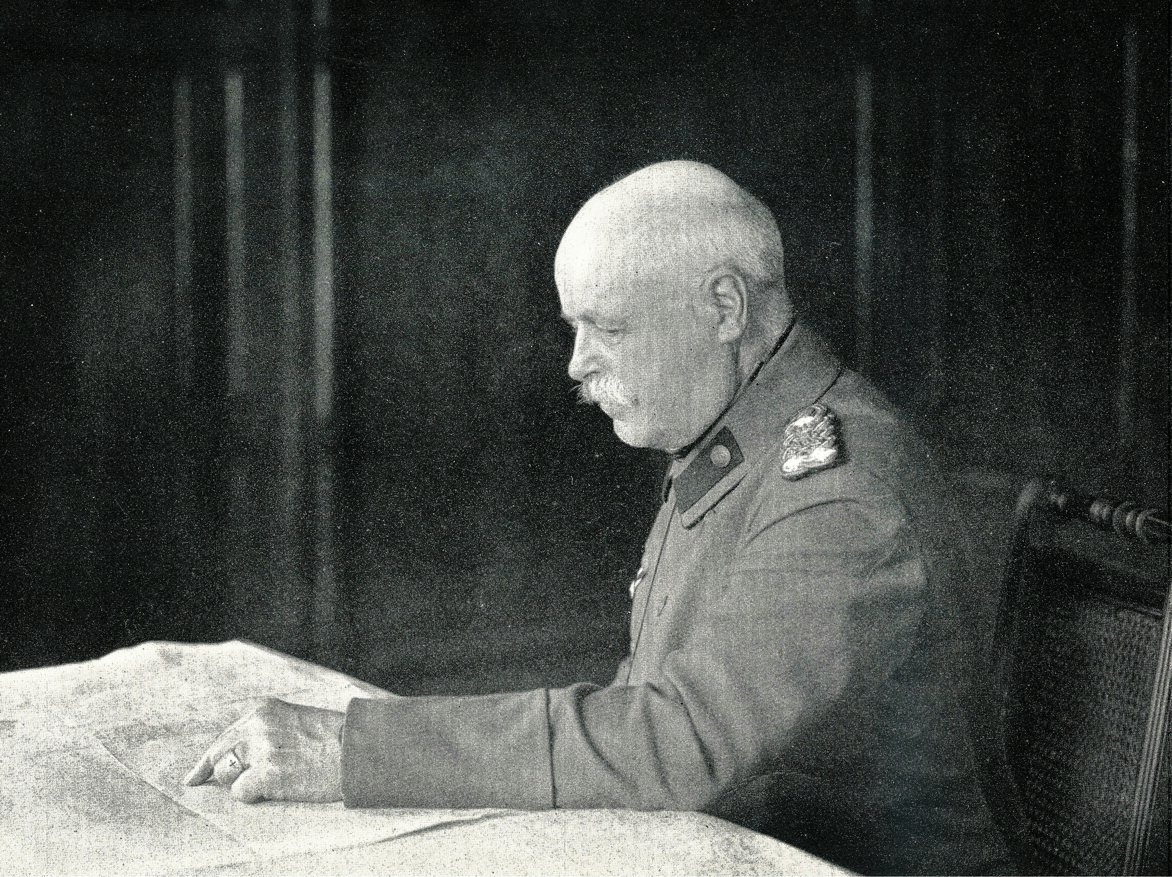 Hermann von Eichhorn, 1917